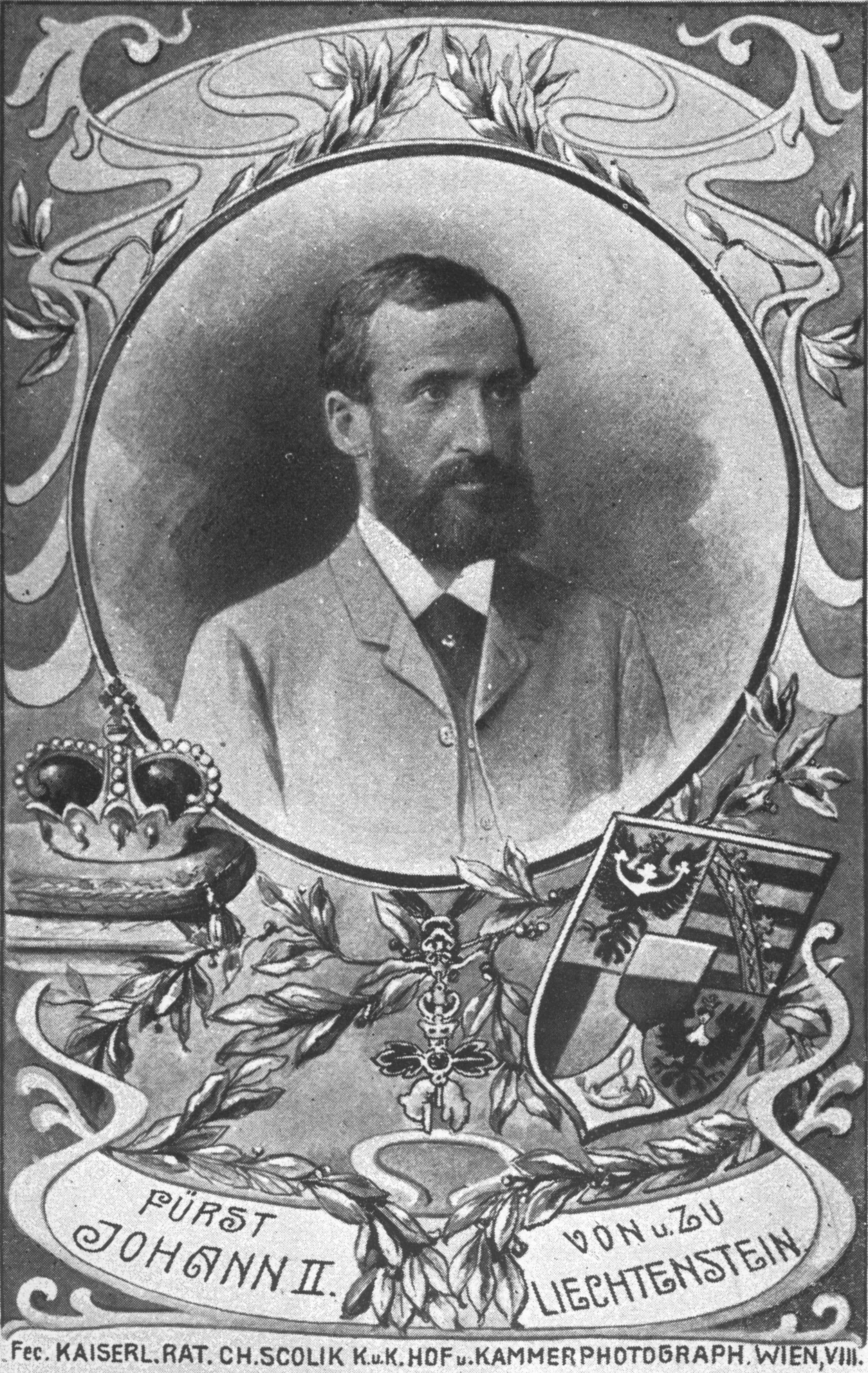 Photo of Johann II Liechtenstein by Charles Scolik (1854–1928), a. 1910